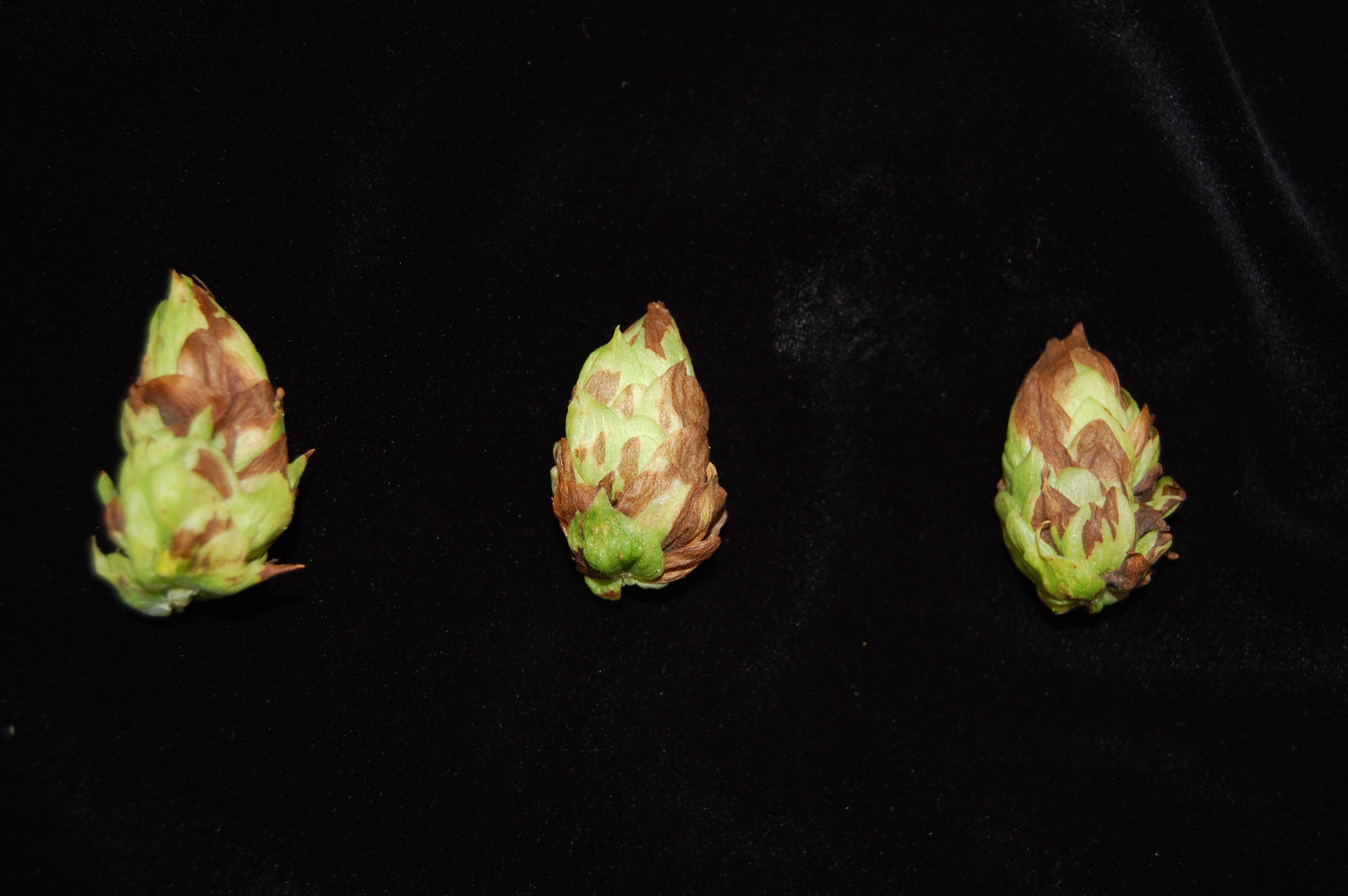 Cones of the hops plant displaying symptoms of downy mildew.